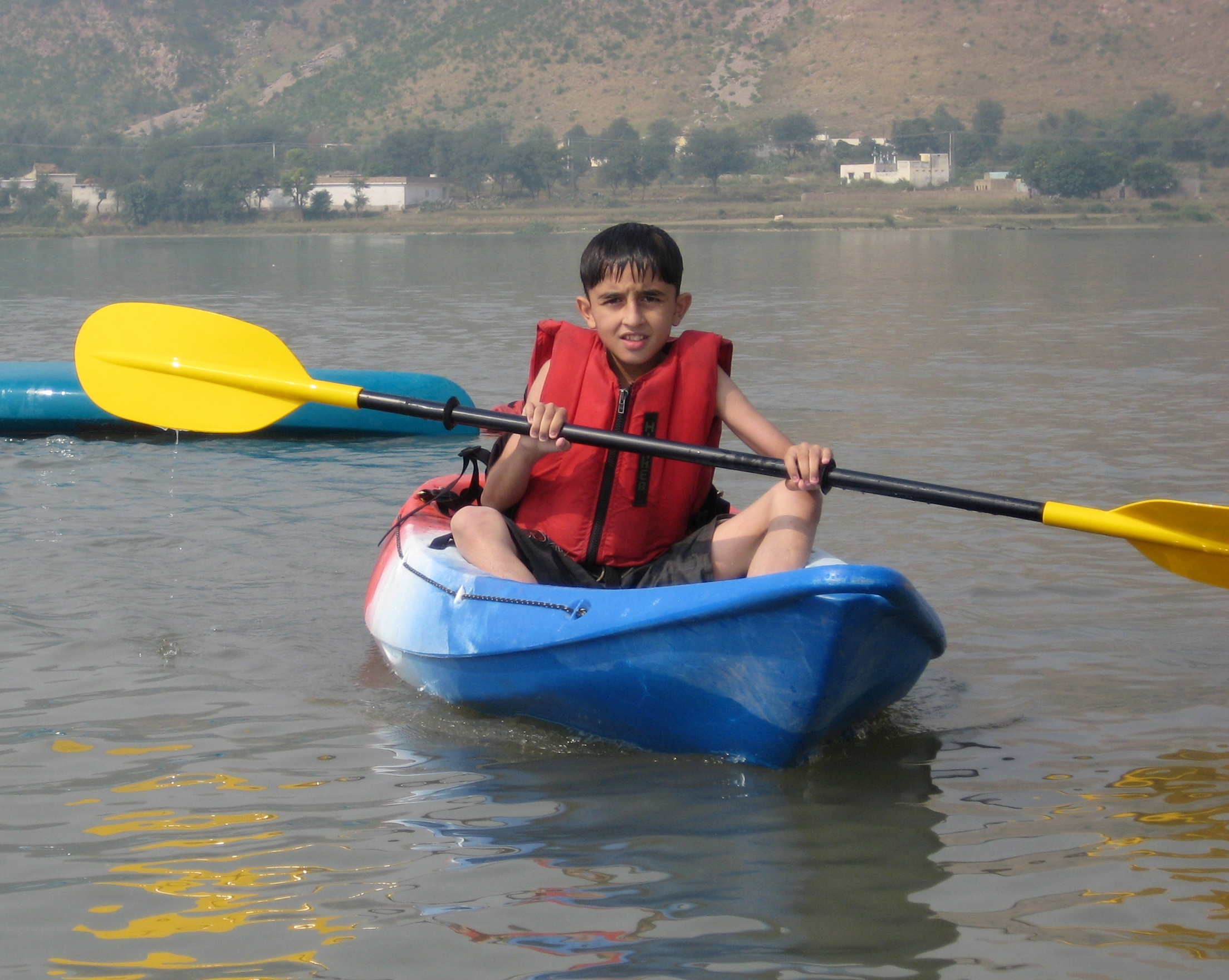 Plastic molded canoe